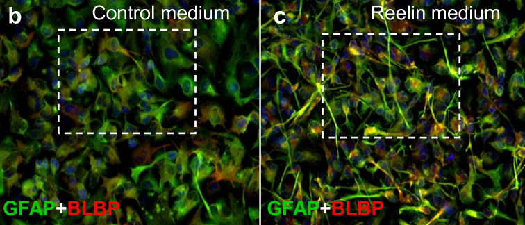 Reelin induces GFAP and FABP7 via Notch1. Part of an image from the Commons. From the article by Keilani and Sugaya, BMC Developmental Biology 2008 8:69